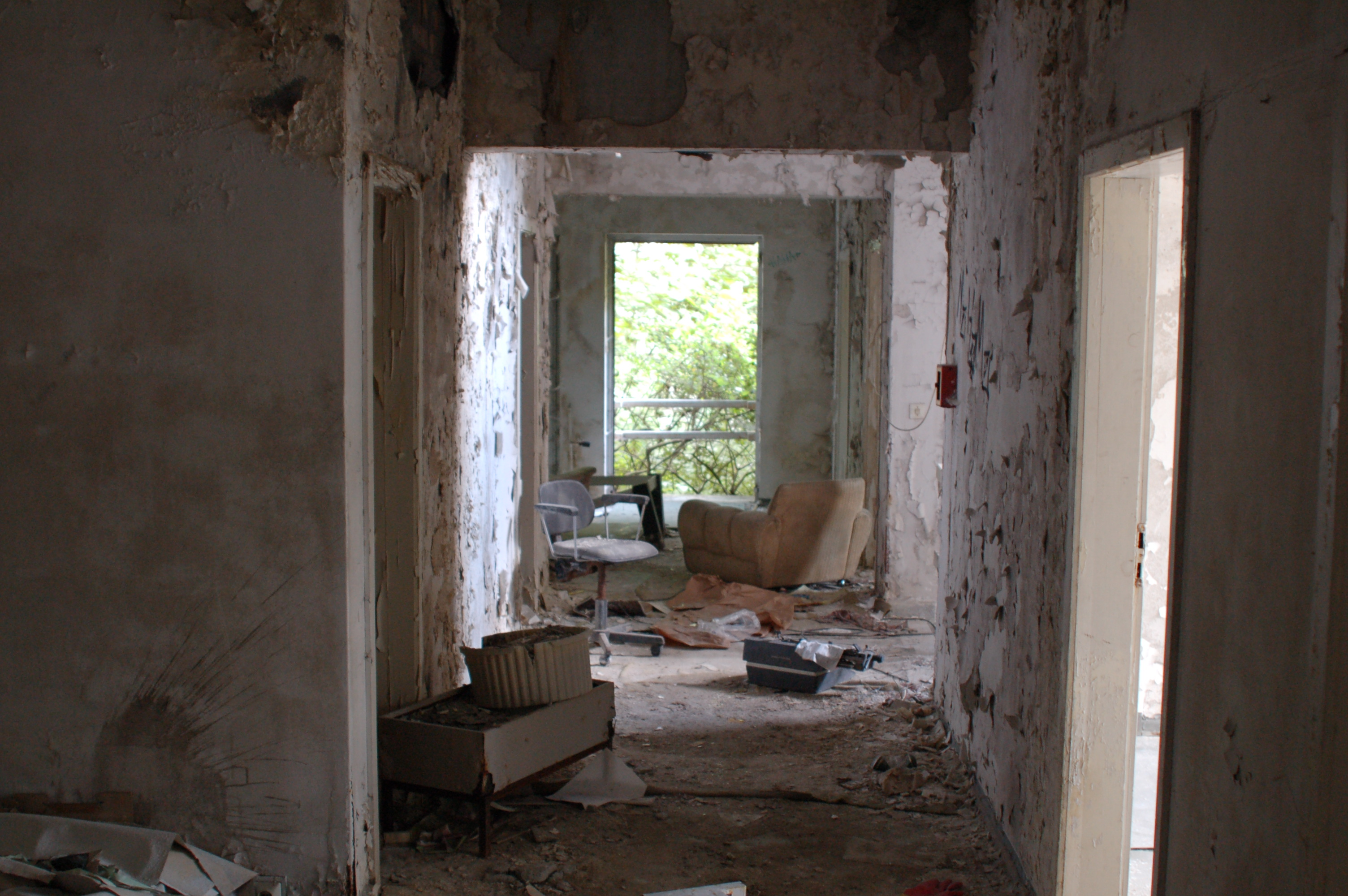 Former Iraqi Embassy in Berlin Pankow in 2011